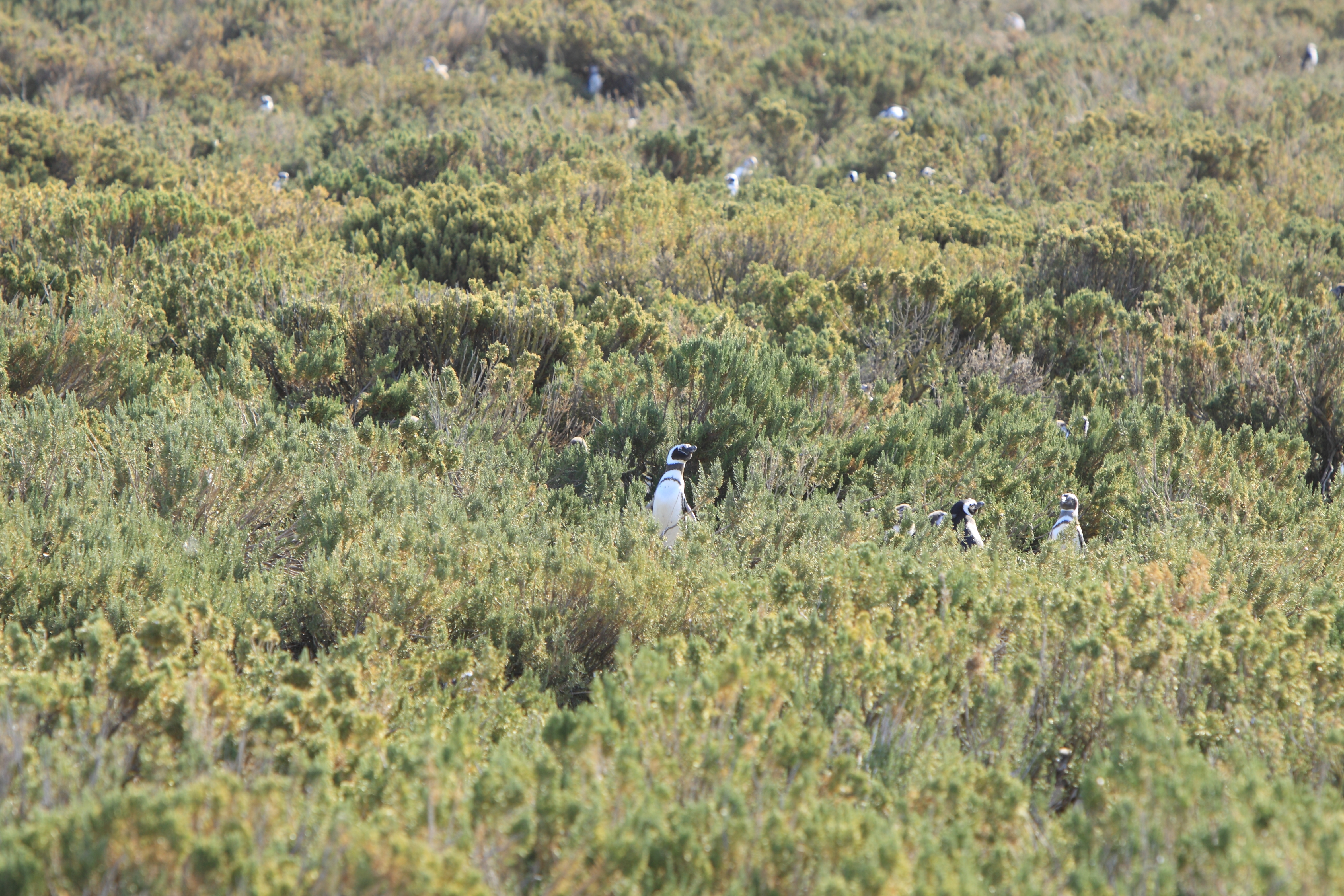 Please, have this description accessible to all by translating it in different languages.